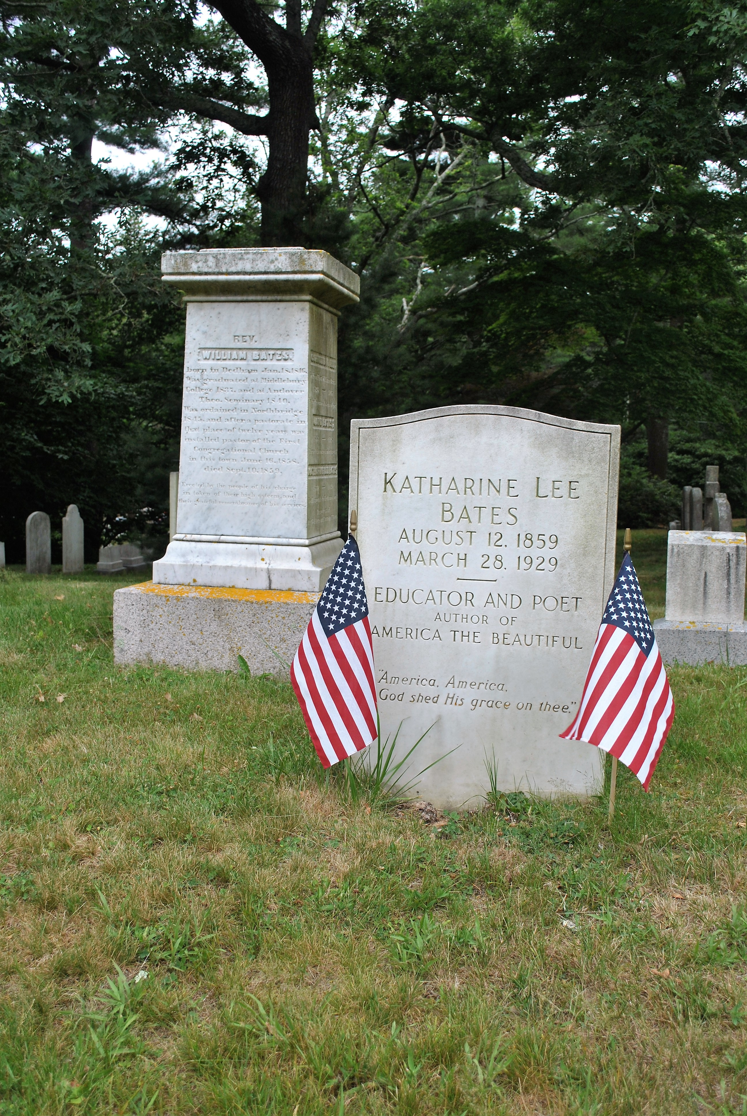 Image originally published in Queer Places: Retracing the Steps of LGBTQ people around the World Authored by Elisa Rolle